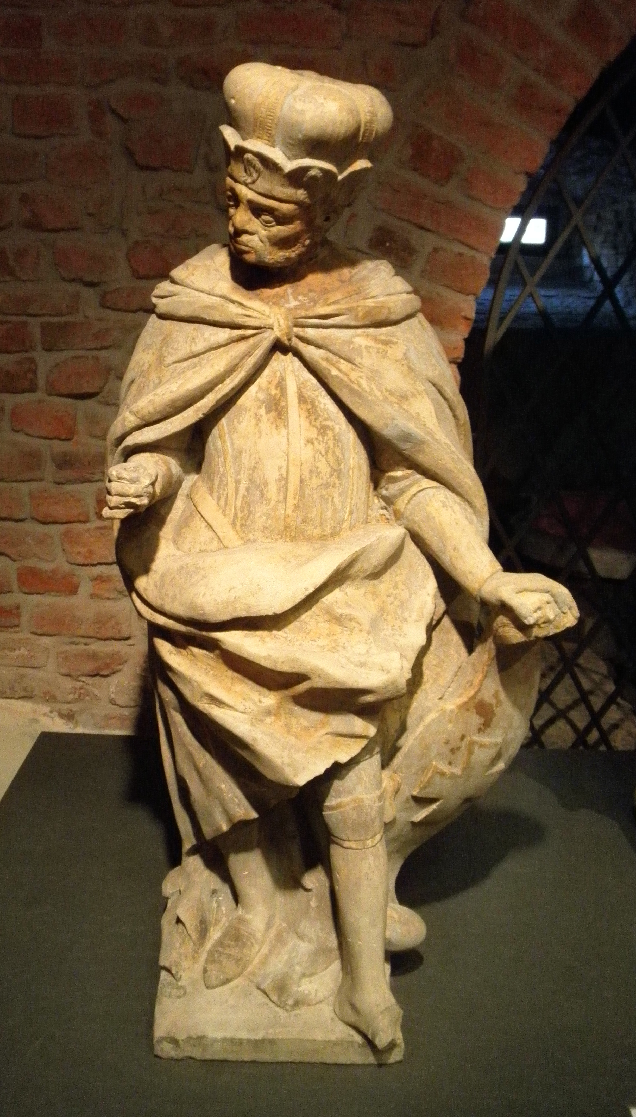 Statue of Saint Maurice by Michael Mandík from around 1690. The statue is from sandstone with remains of a gold coating. It was in a niche over the western portal of the Church of Saint Maurice (Olomouc). Photo taken in the Regional Museum in Olomouc.